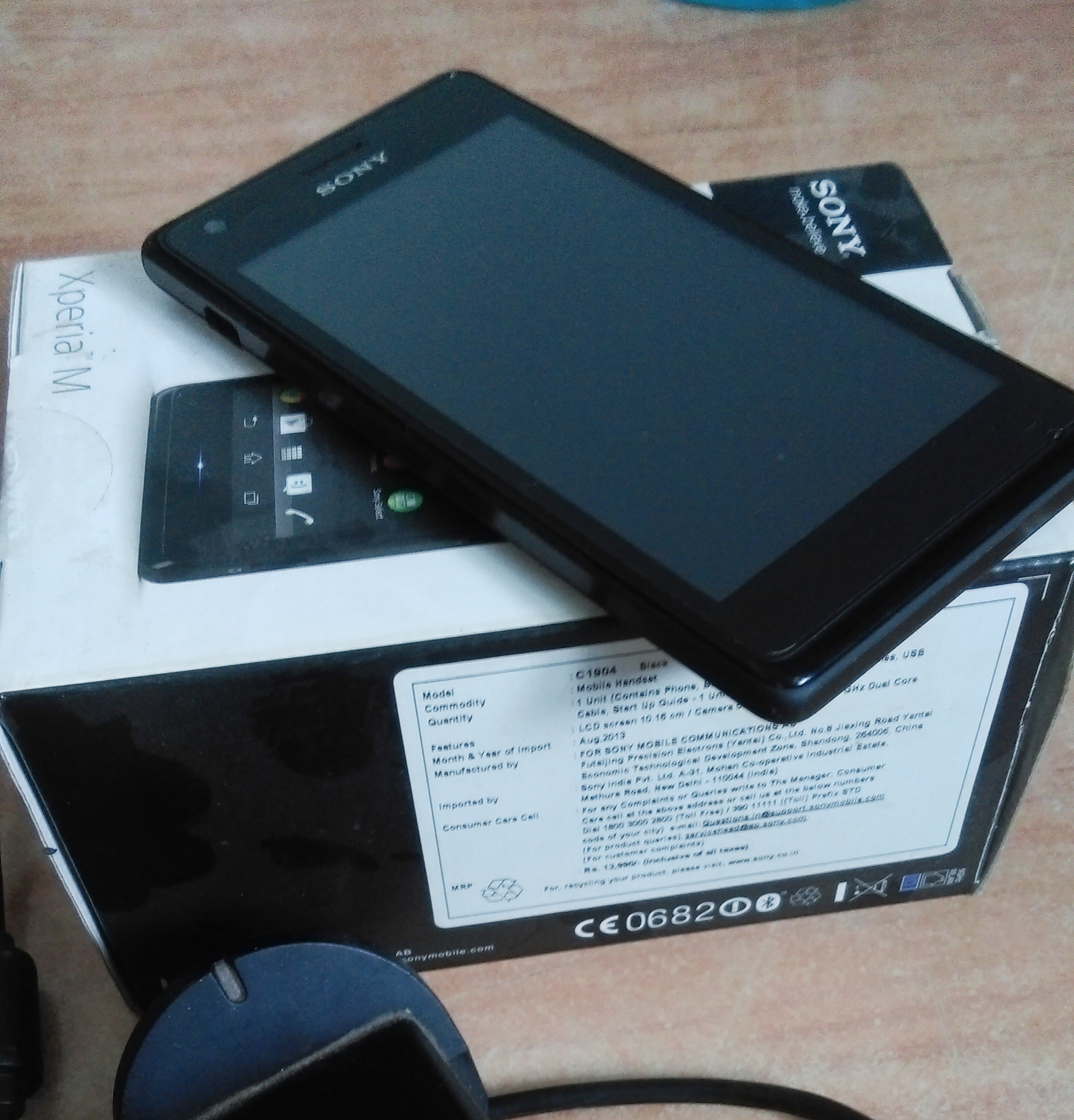 Sony Xperia M Single Sim